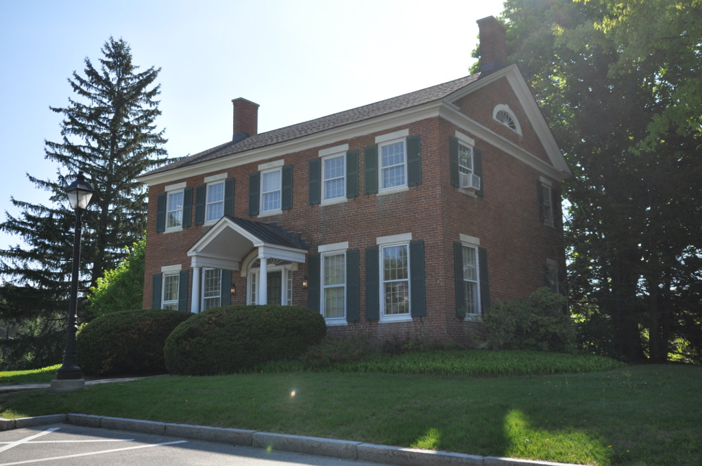 Cranesville Historic District, Dalton, Massachusetts. Zenas Crane House.